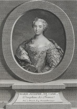 Marie Josèphe of Saxony, Dauphine of France